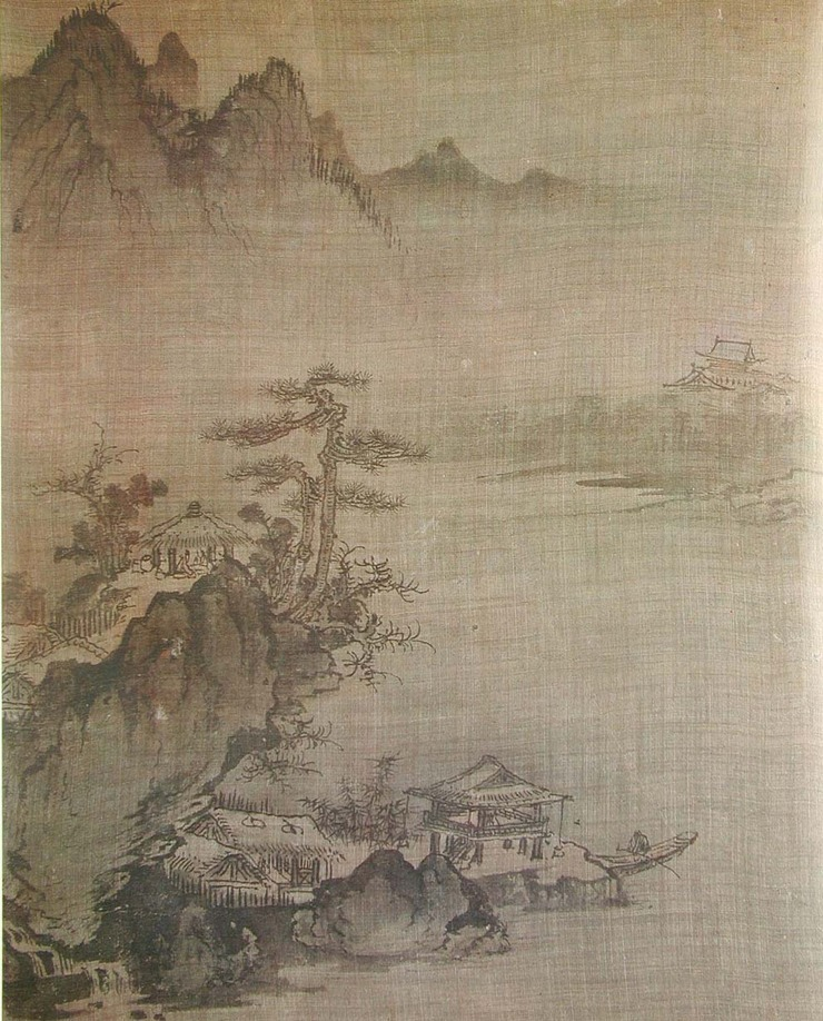 sasipalgyeongdo is a collection of eight paintings that depict the eight seasons of a mountain and water landscape